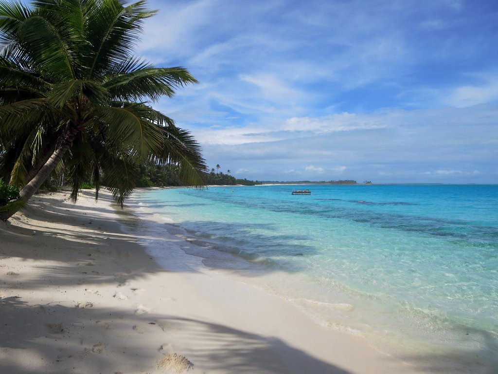 This lagoon beach on Direction Island, Cocos (Keeling) Islands, is a great place for a swim.